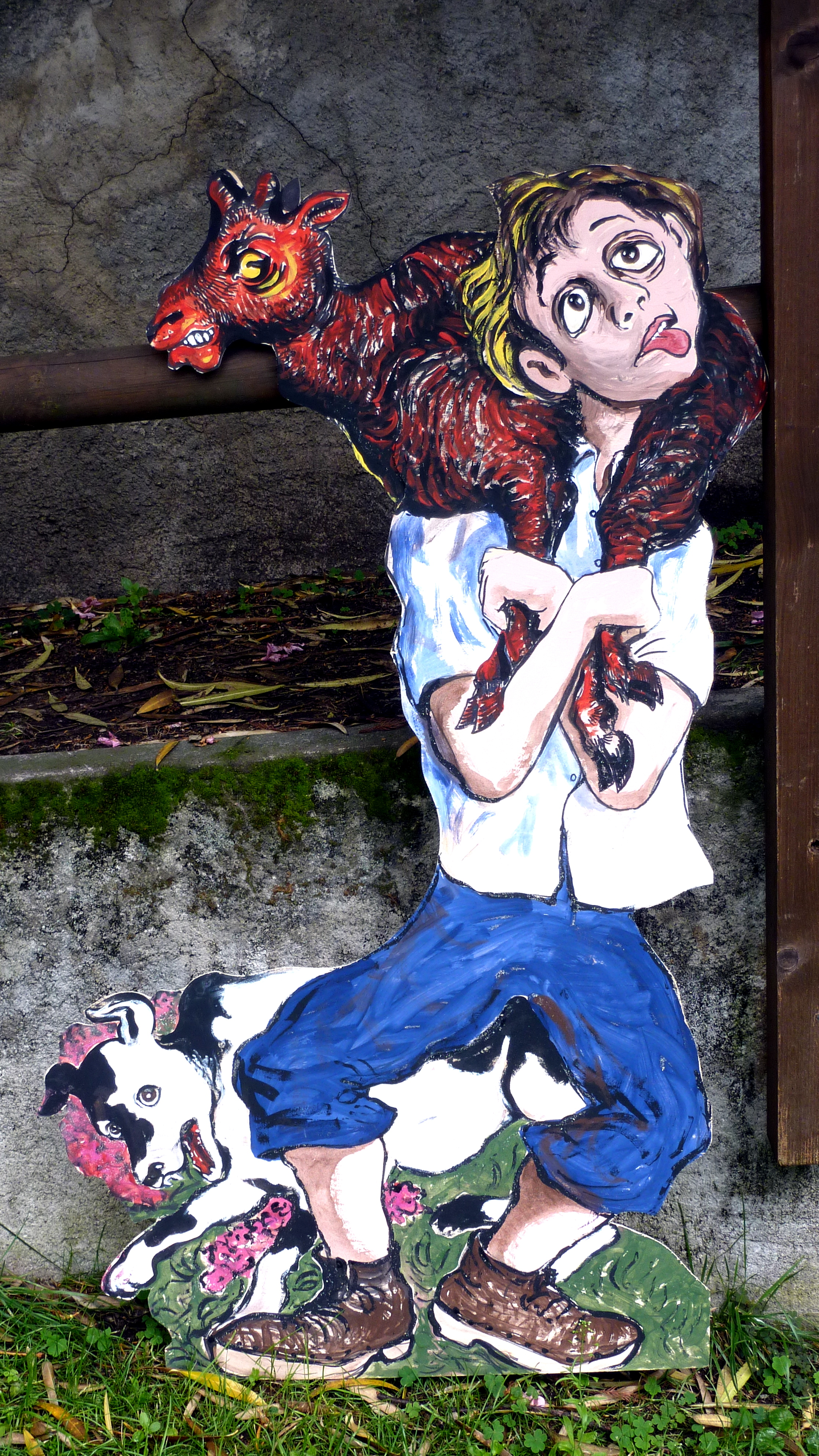 Representations of scary stories of Esino Lario by Paolo Boncompagni. Series of images-sculptures created around folk stories of Esino Lario.